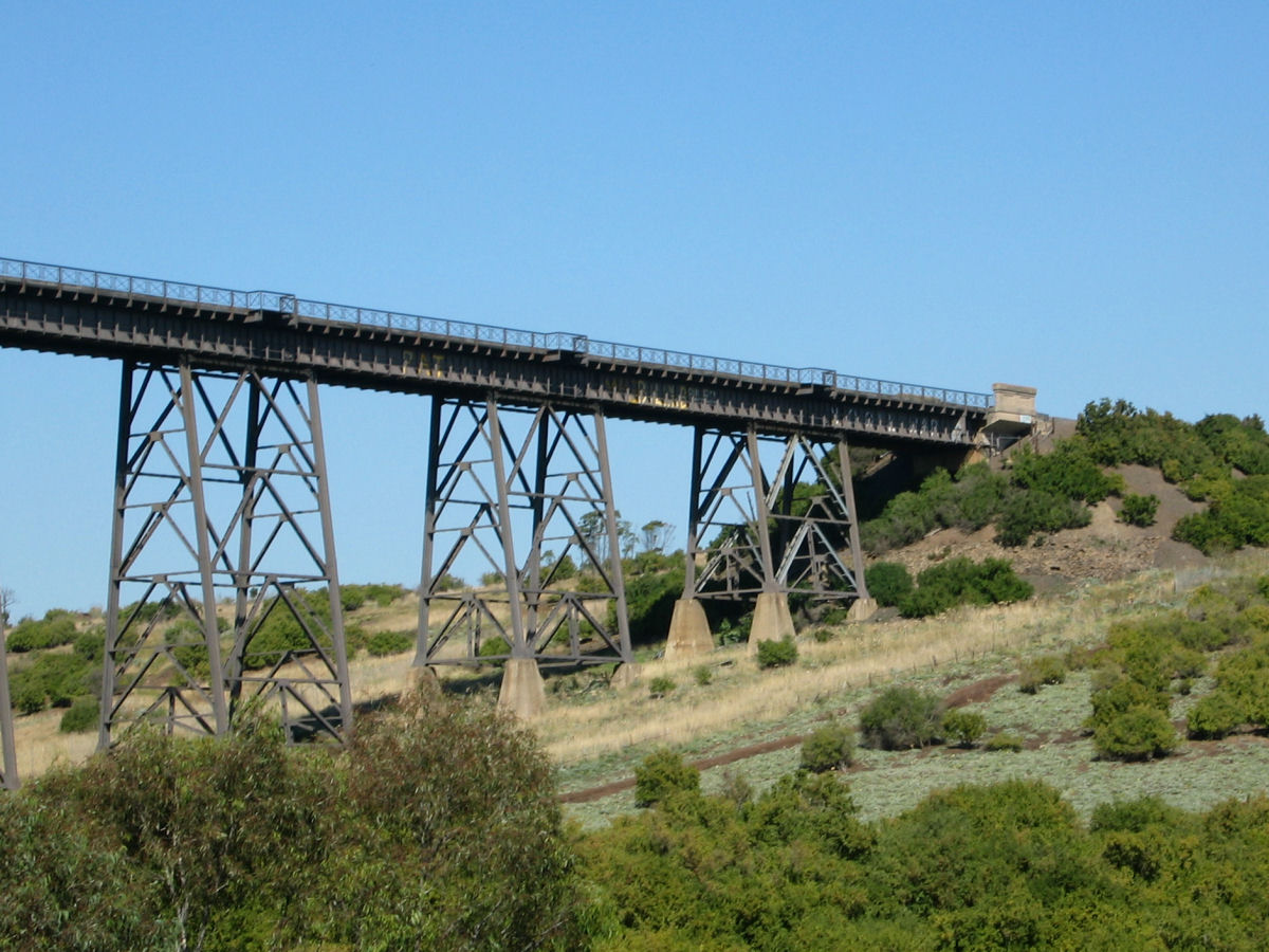 Unfortunately there was no clear view of the entire rail viaduct from the bicycle path. This is the west end. 410 metres long.